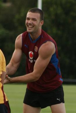 Mitchell Clark at Brisbane Lions pre-season training in December 2008. Giffin Park, Coorparoo, QLD, Australia.